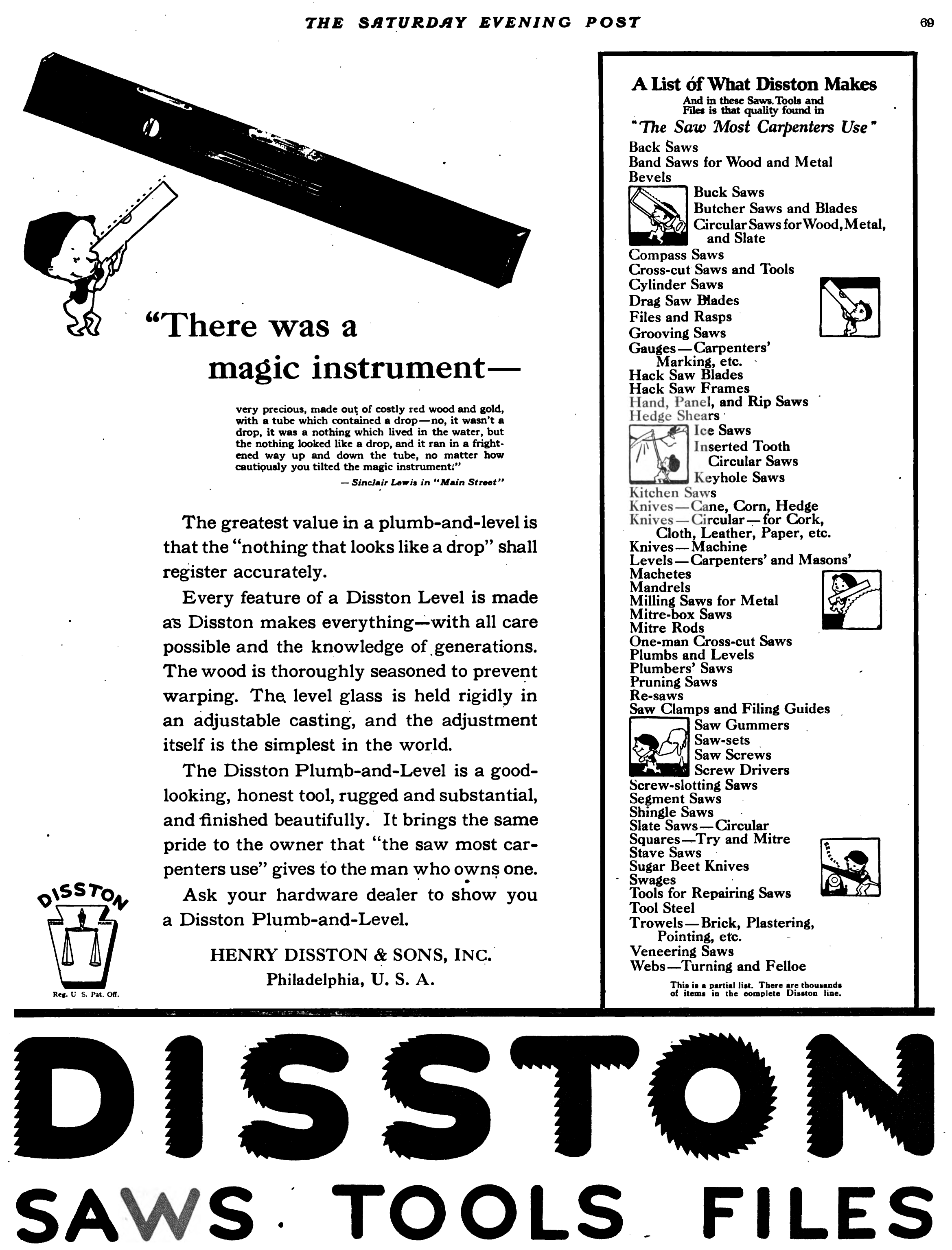 Henry Disston & Sons, Inc advertisement in the Saturday Evening Post, June 11, 1921, volume 193, issue 5, page 69.